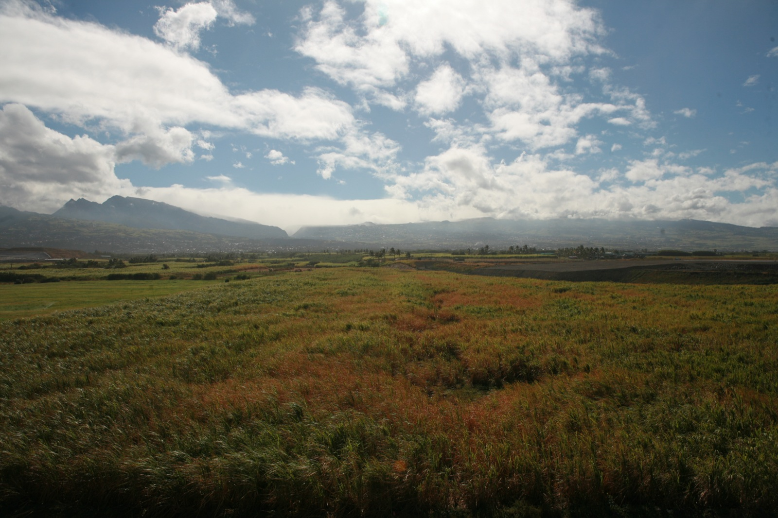 Sugar cane from the chopper on Réunion island